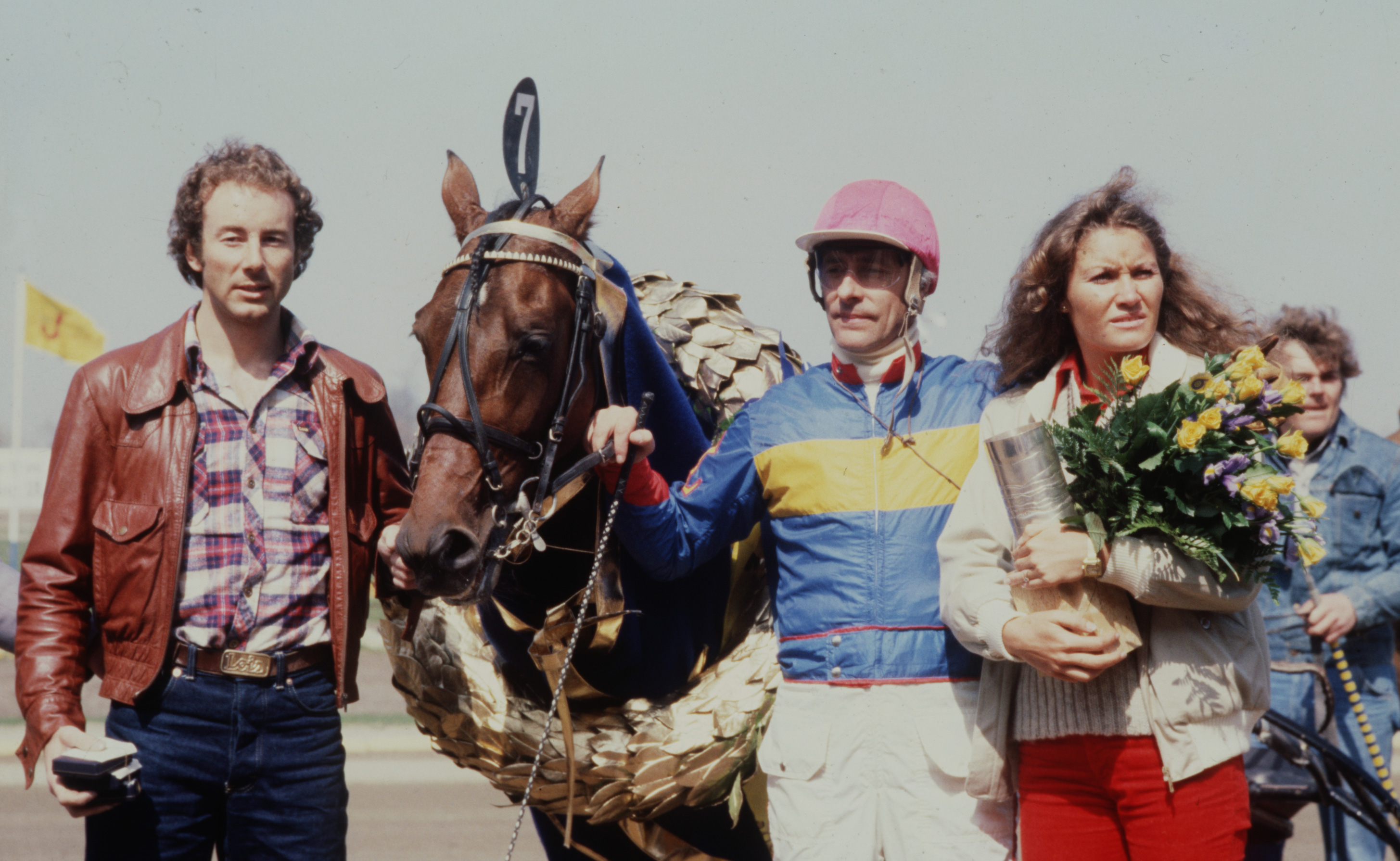 OLYMPIATRAVET 1979,SEGRARE PERSHING & BERNDT LINDSTEDT. INGEMAR STENMARK & LINDA HAGLUND PRISUTDELARE. Fotograf: Referens:790969-36 Place